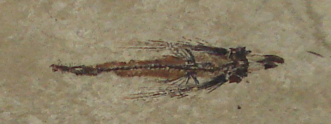 Fossil of a cheirotricid (? Exocoetoides DAVIS, 1887), an extinct fish